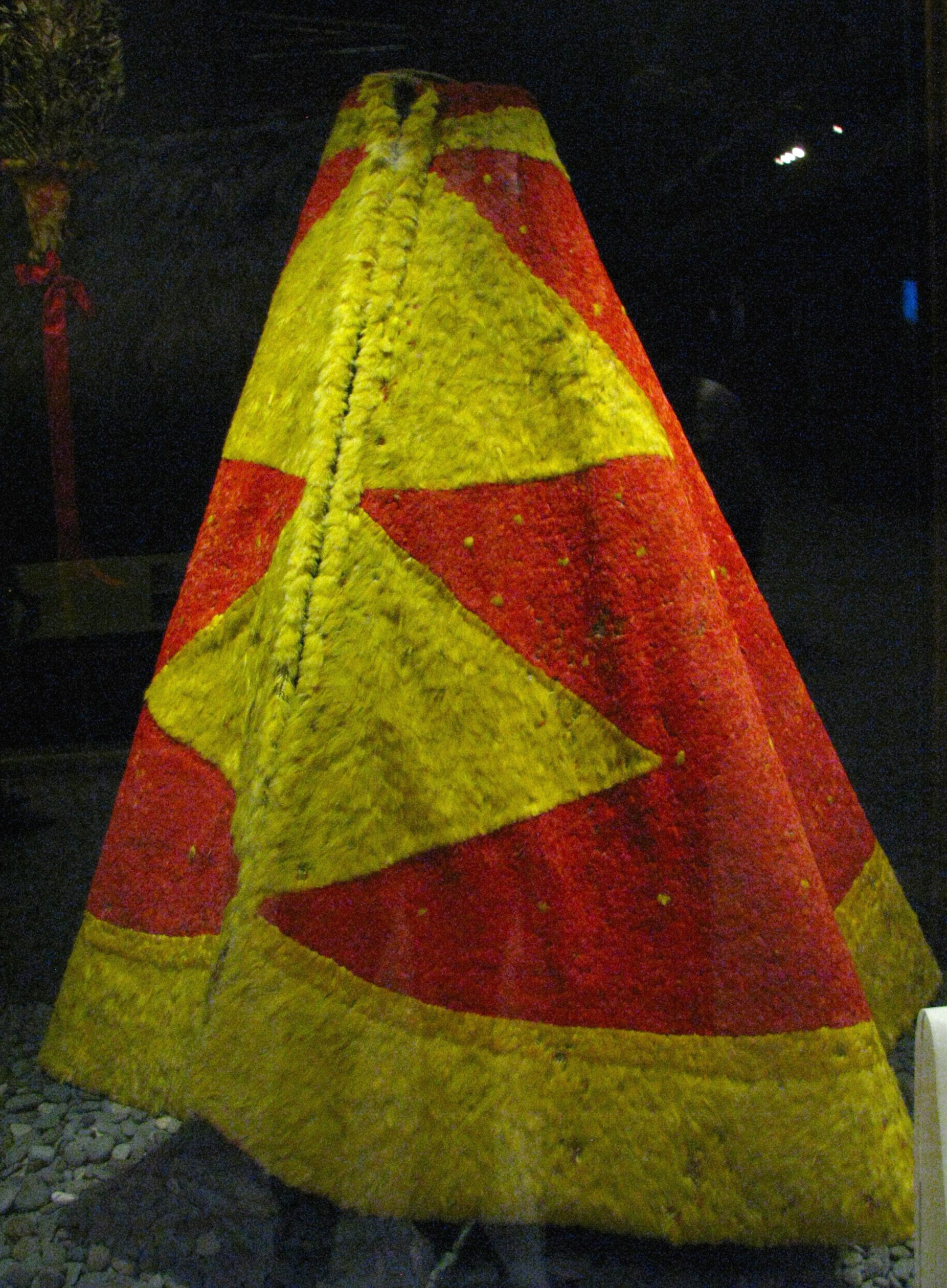 ʻAhu ʻula are feathered capes. There about about 160 existing today in museums throughout the world. The largest collection is at the Bishop Museum. This ʻahu ʻula was made from the red feathers of ʻiʻiwi (Vestiaria coccinea) and ʻapapane (Himatione sanguinea), and the yellow feathers from ʻōʻō (Moho spp.) and mamo (Drepanis pacifica) attached to the netting of olonā (Touchardia latifolia) fiber. It is thought that this ʻahu ʻula belonged to Chief Kalaniʻōpuʻu (d.1782) of Hawaiʻi Island. Incidentally, it was Kalaniʻōpuʻu who welcomed Captain James Cook as the god Lono at Kealakekua, Hawaiʻi Island on January 17, 1779. Bishop Museum, Honolulu, Hawaiʻi